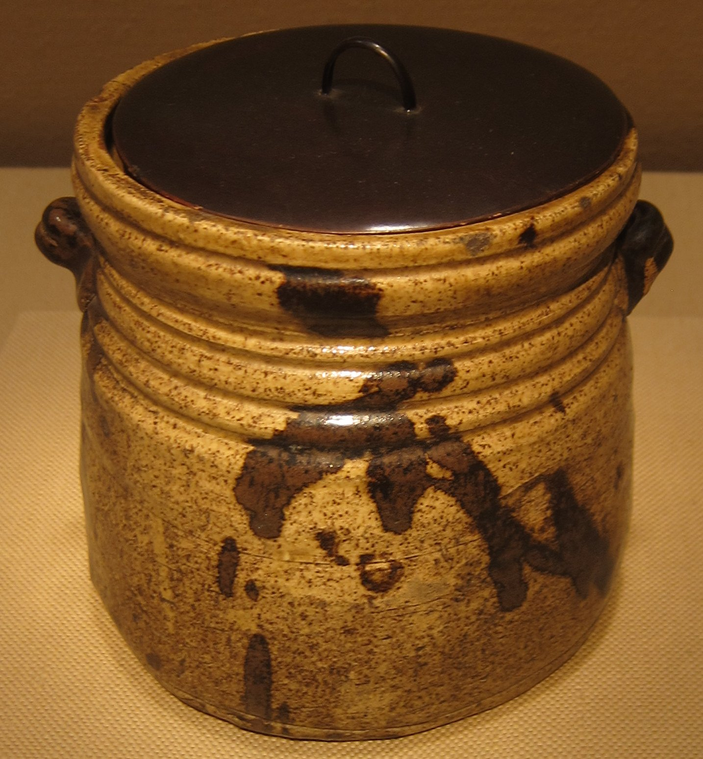 Water jar, Momoyama or Edo period, 17th century, clay covered with glaze and iron-brown splashes and black lacquer cover (yellow Seto ware), Metropolitan Museum of Art, accession 17.118.81a, b